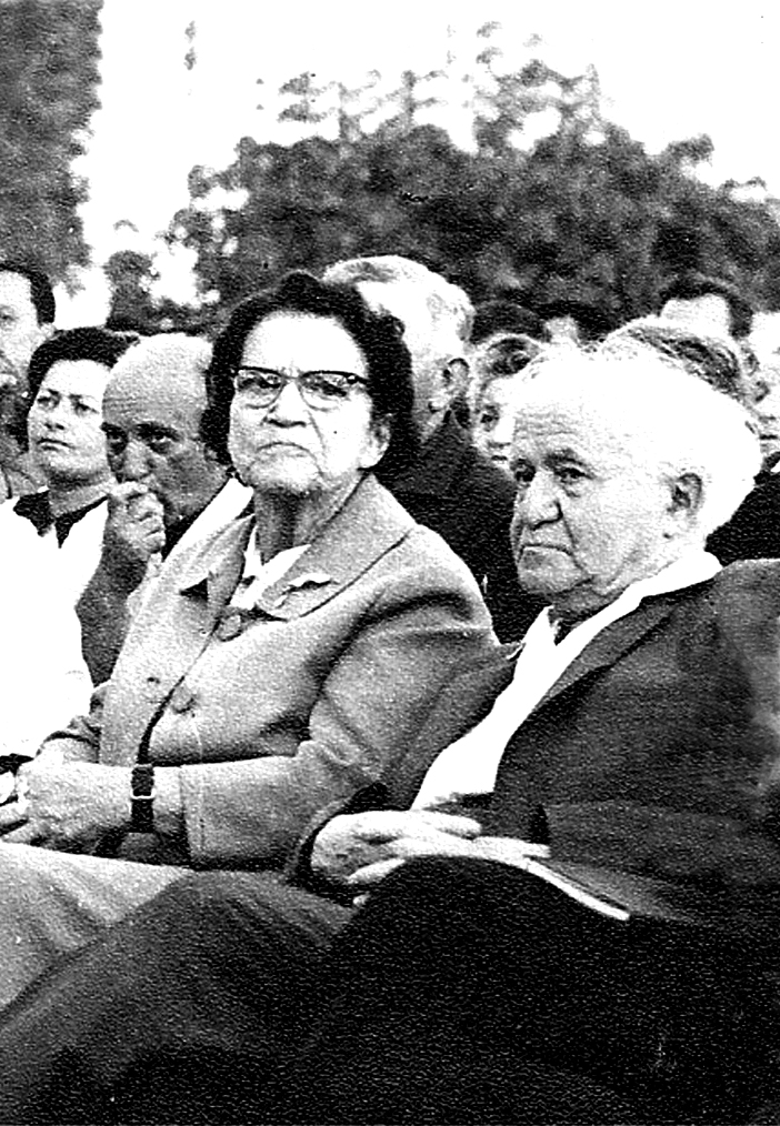 David and Paula Ben Gurion at the "Rafi\" meeting